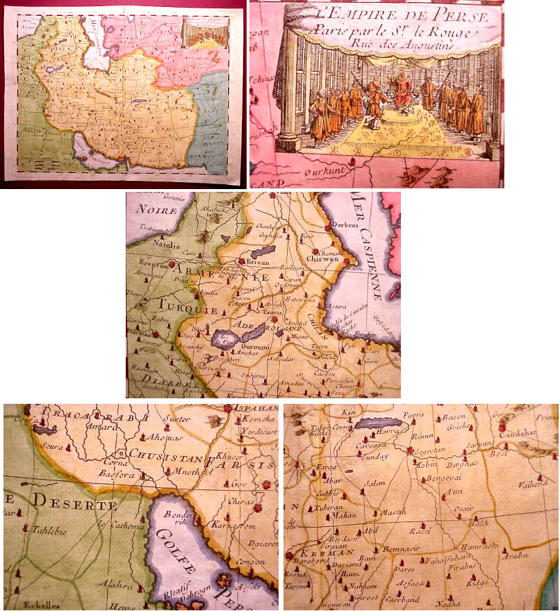 "L'Empire De Perse" issued 1748, Paris, by Le Rouge. A nicely detailed mid-18th century map of Persia. Includes major rivers, lakes, surrounding islands, political divisions, as well as major cities and seaports. Many important cities are signified by tiny cathedral symbols and these are highlighted in red. With a wonderful large vignette court scene at upper right. In VG+ to near excellent, clean antiquarian condition. Very pleasing visually. Sheet measures 12" W x 8 3/4" H, image measures 10 3/4" W x 7 7/8" H.